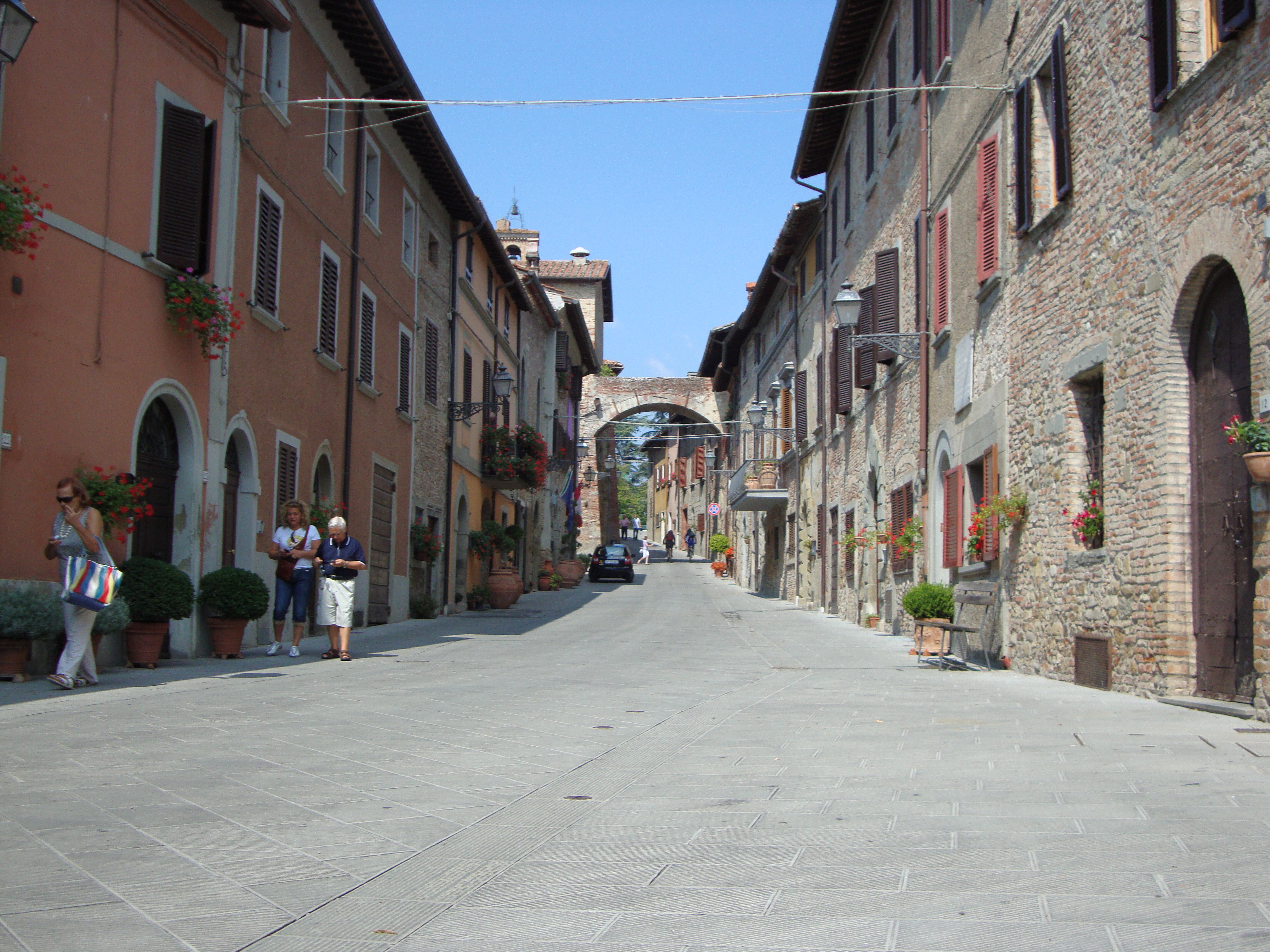 Citerna landscape